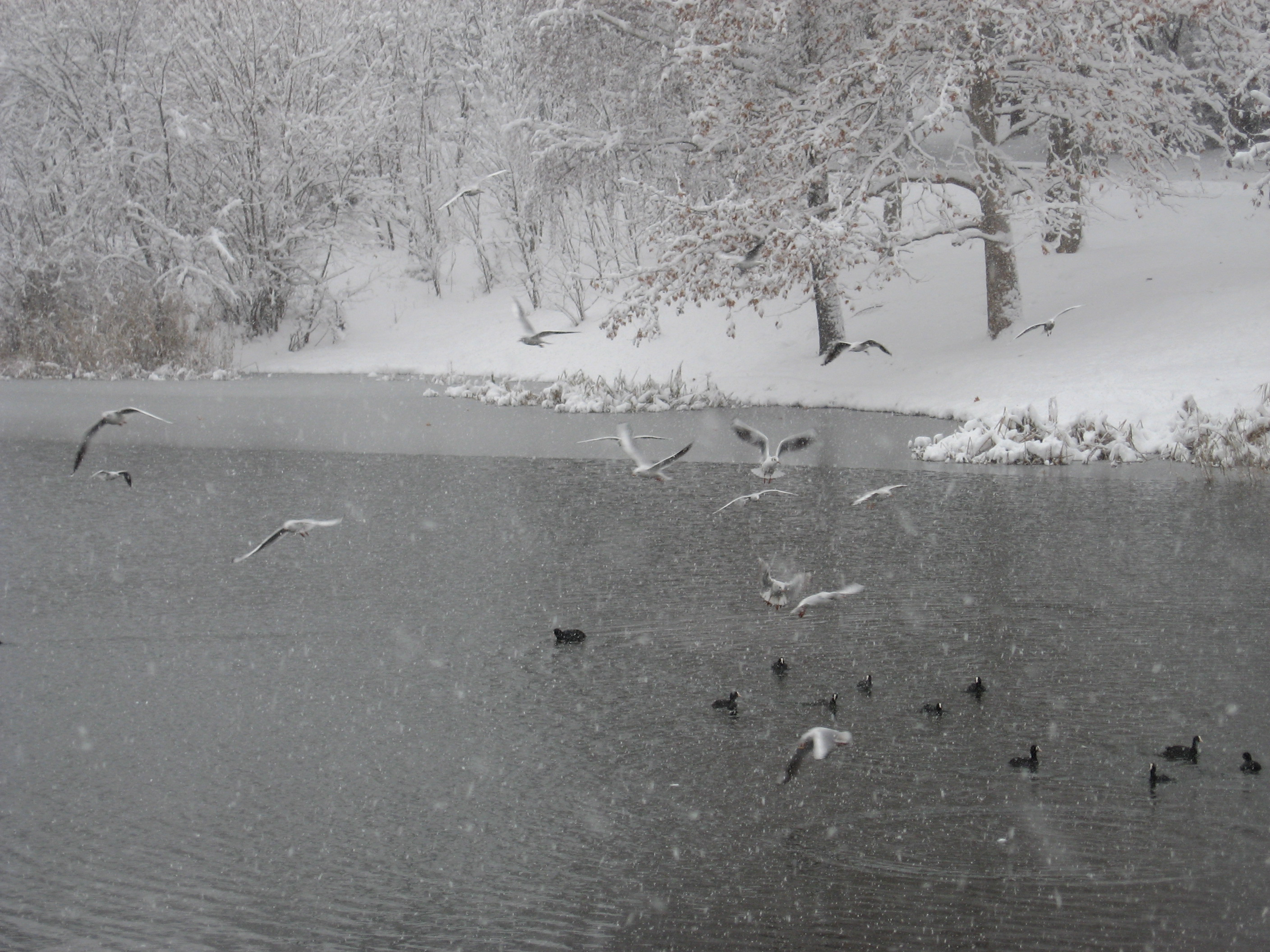 Seagulls and Coots in city park in winter